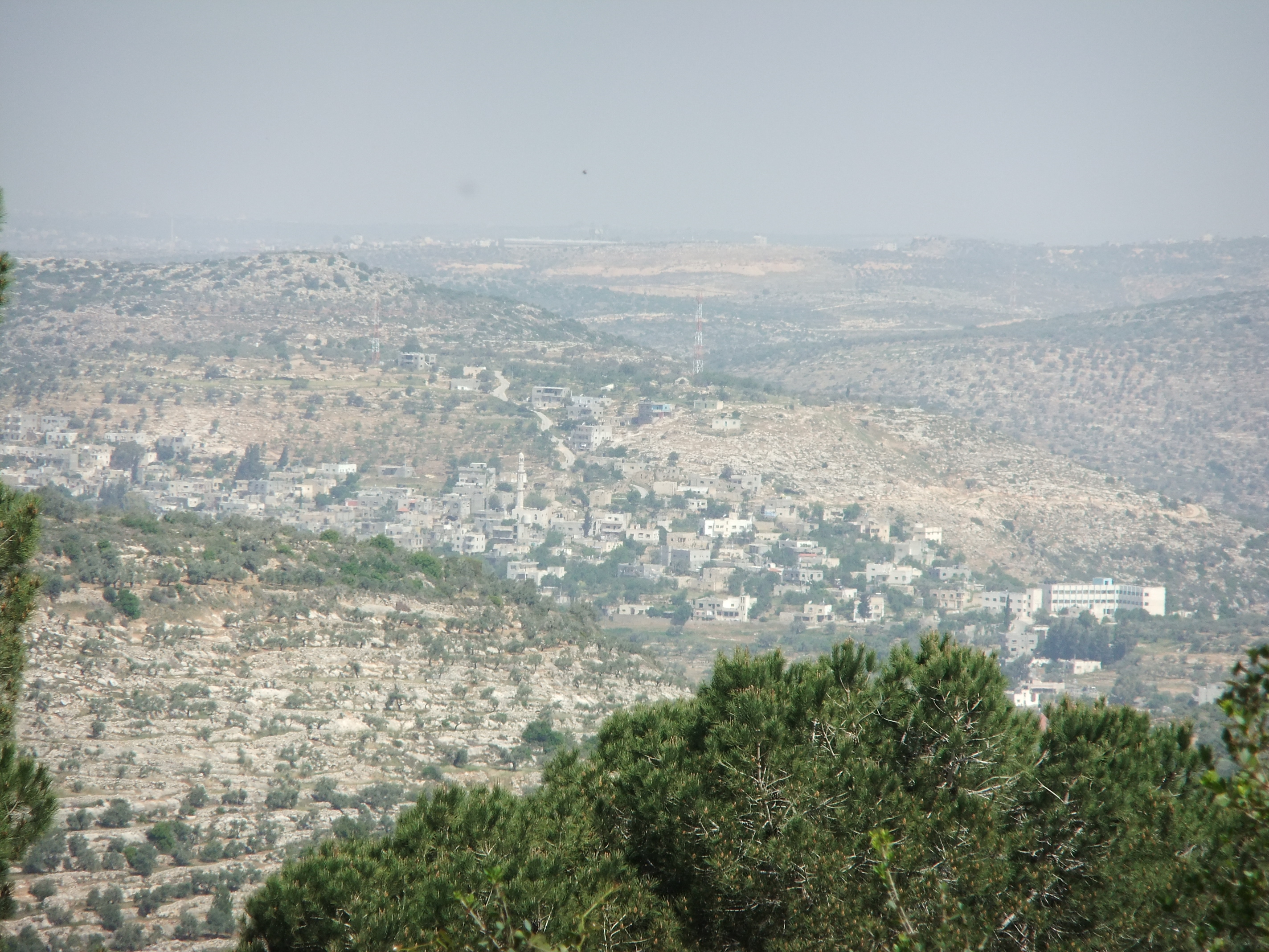 Kafr Ein from Um Tsafa forest